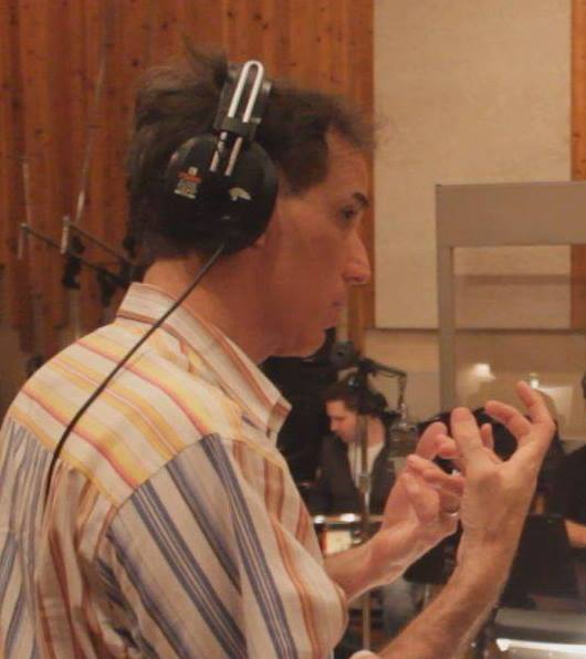 Picture of Jack Cooper conducting in Mists: Charles Ives for Jazz Orchestra studio session at the Systems Two, this is unique to his profession and what he does as a composer